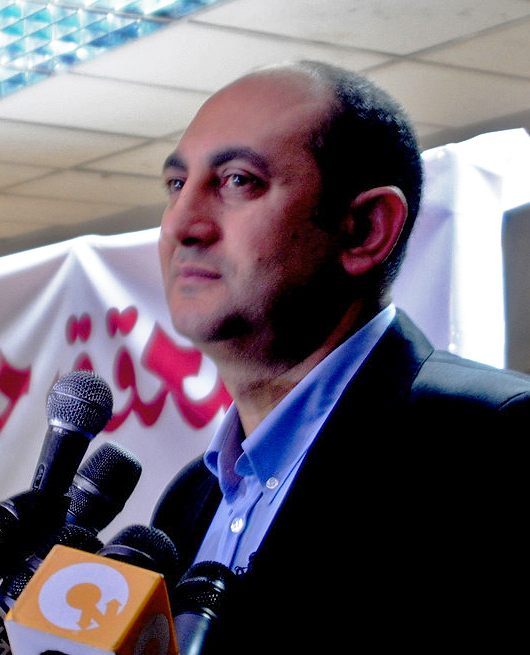 Potential Presidential Candidate Khaled Ali speaking at a press conference where he announced that he will be contesting in the presidential race.